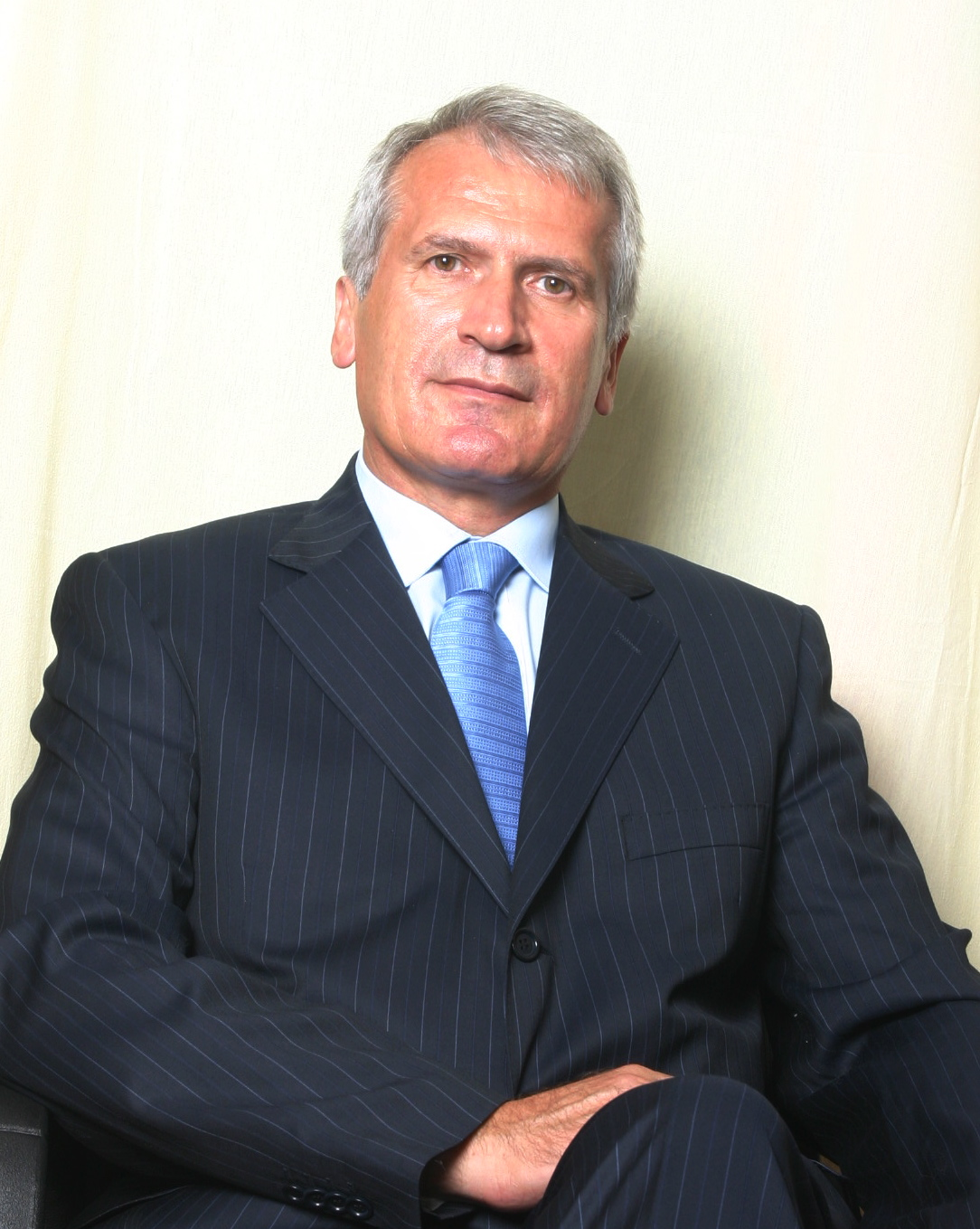 Personal photo